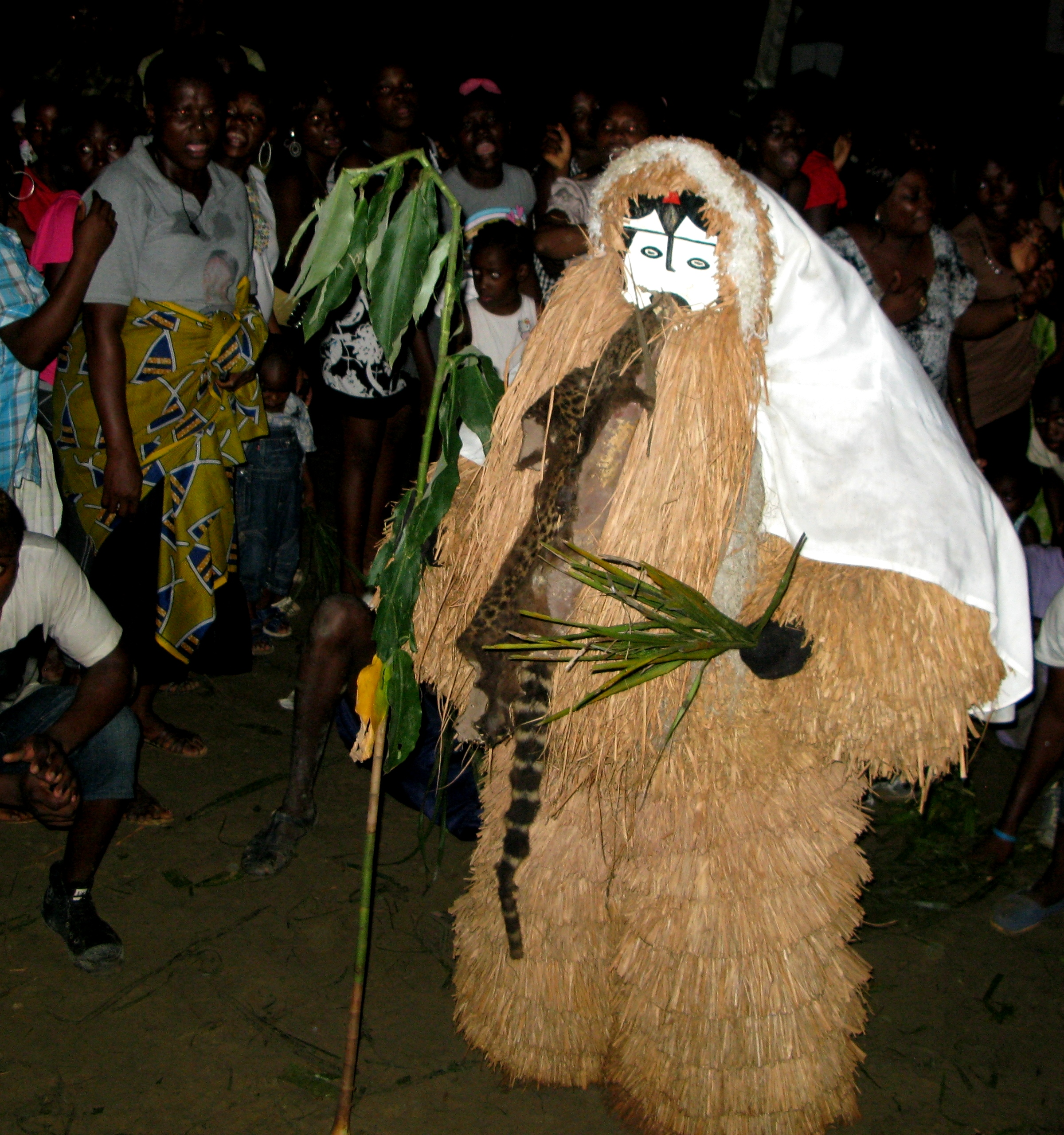 Bata, Equatorial Guinea 2011